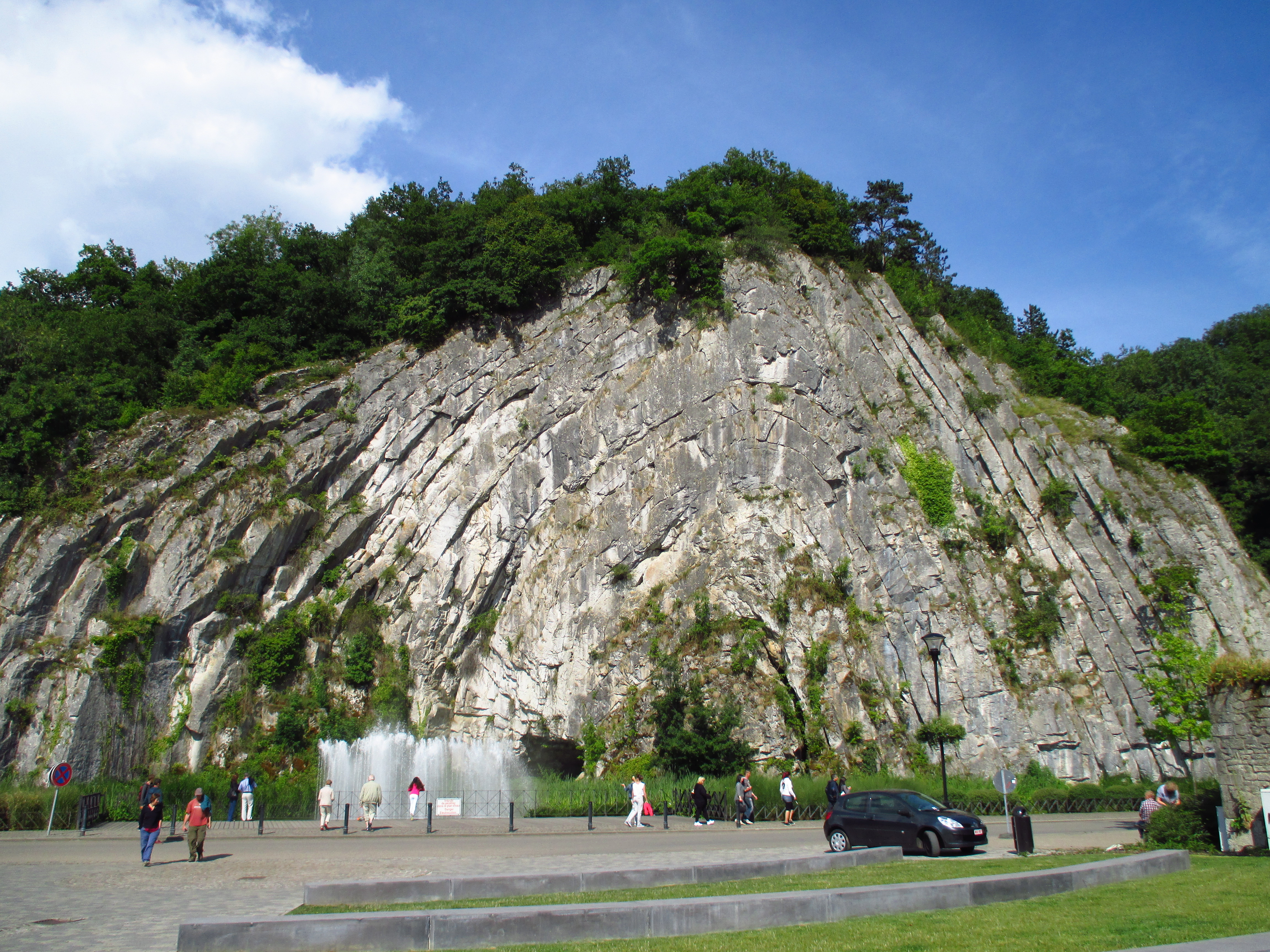 Anticline of Durbuy (Rocher Homalius).